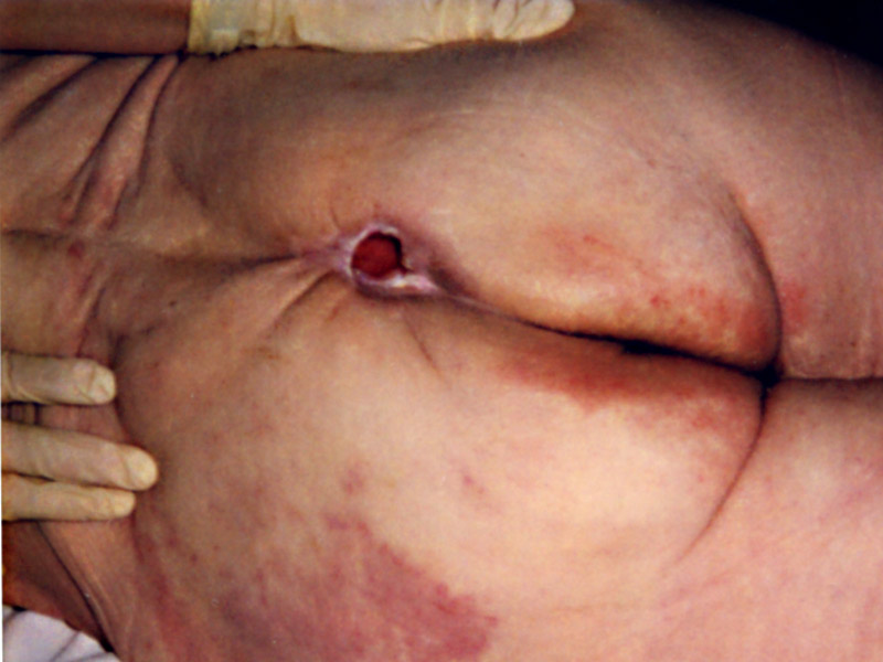 Bedsore